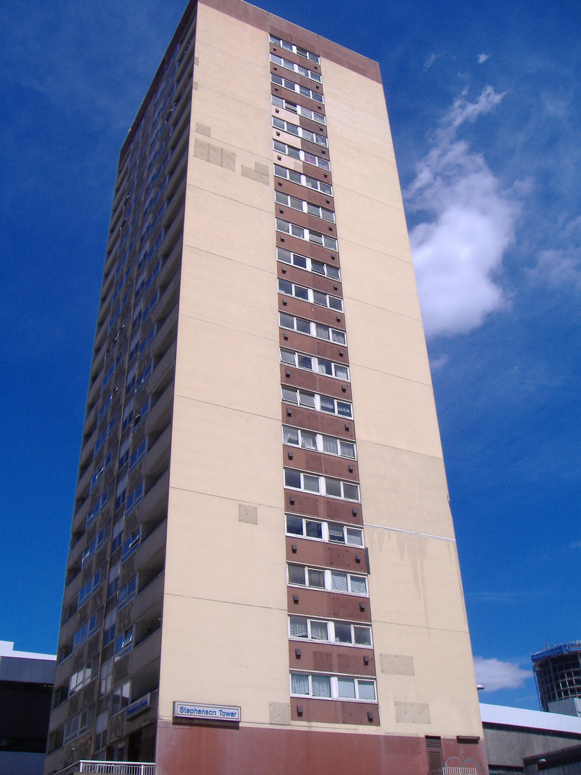 Stephenson Tower is a tower block in Birmingham city centre on top of New Street Station and the Pallasades Shopping centre. It is set to be demolished and be replaced by two taller towers.